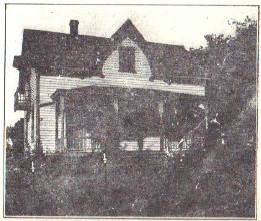 Studio of Richard Norris Brooke in Warrenton, Virginia